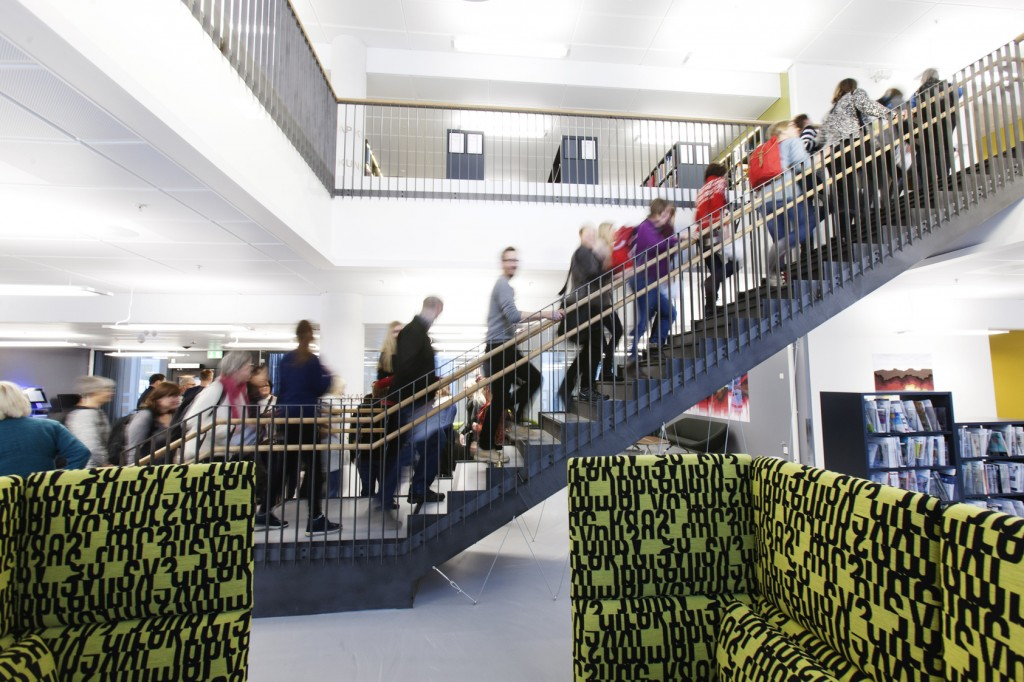 Interior of the Medicine and Health Library at the Norwegian University of Science and Technology, Trondheim, Norway